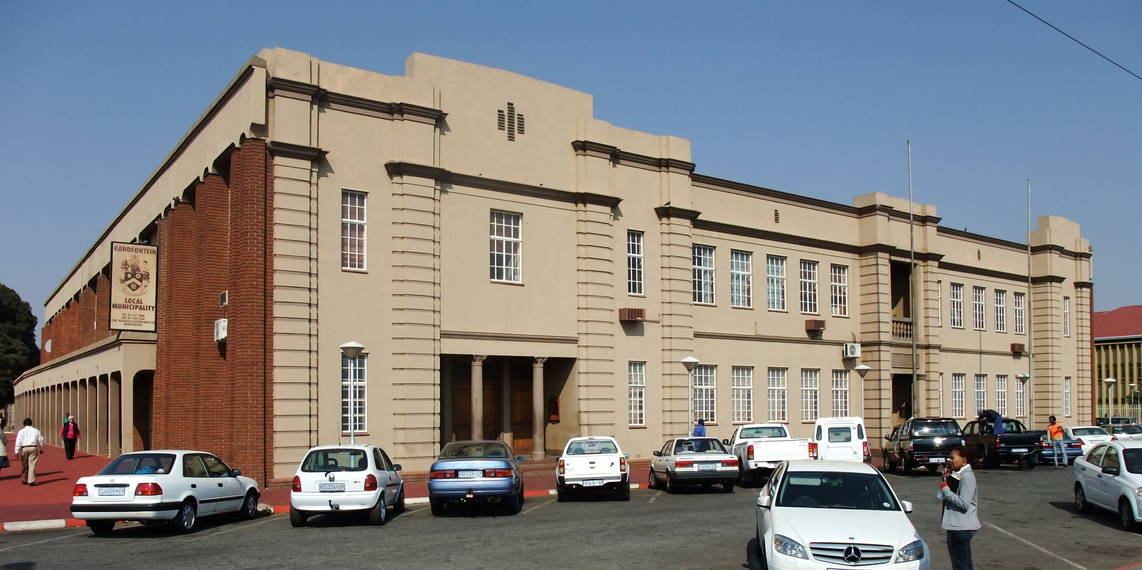 Town Hall, cnr Struben and Sutherland Streets, Randfontein This media shows a South African Protected Site with SAHRA file reference 9/2/260/0007.